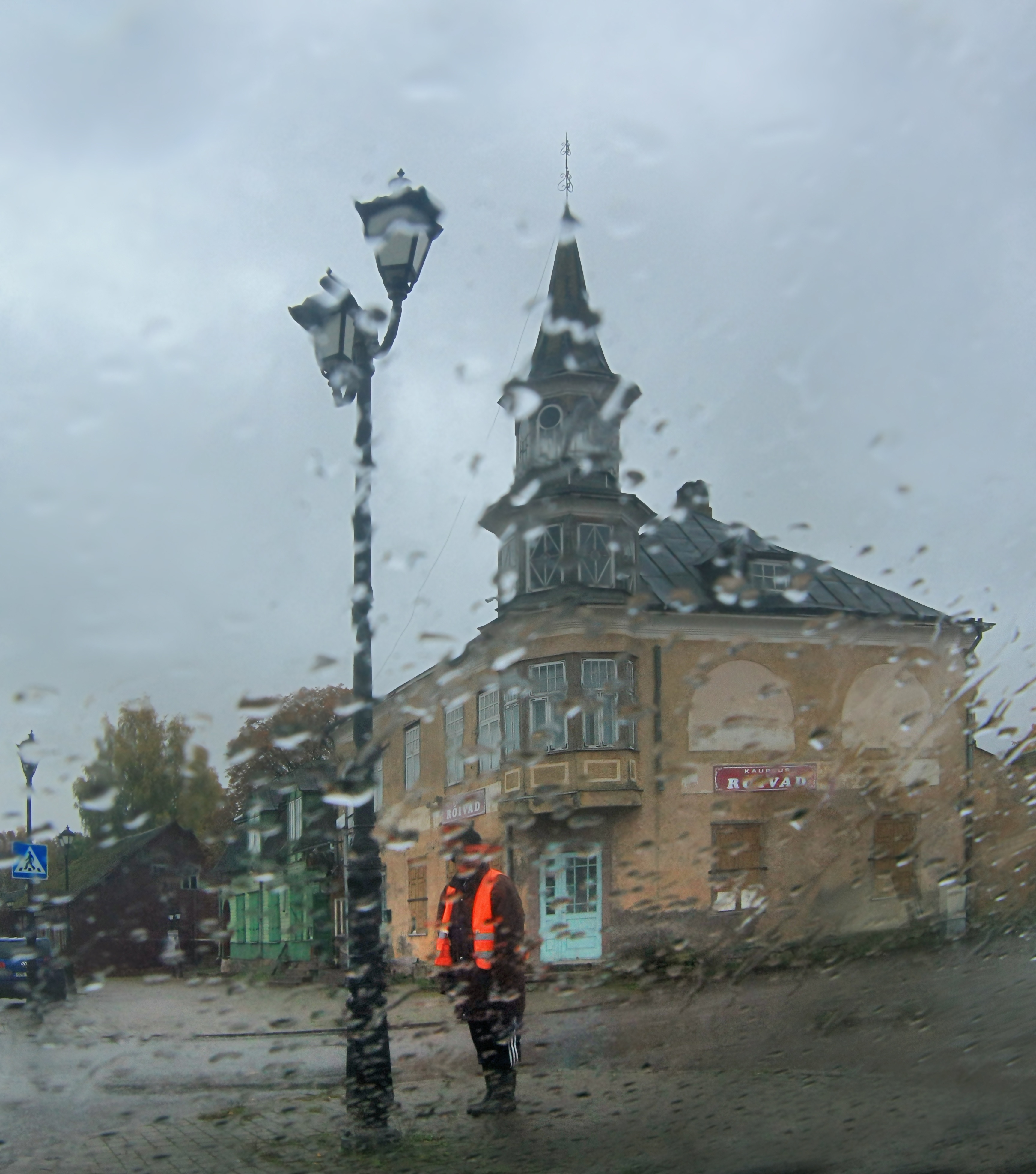 Small village of Mustla in the rain. Estonia